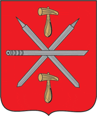 Tula, coat of arms